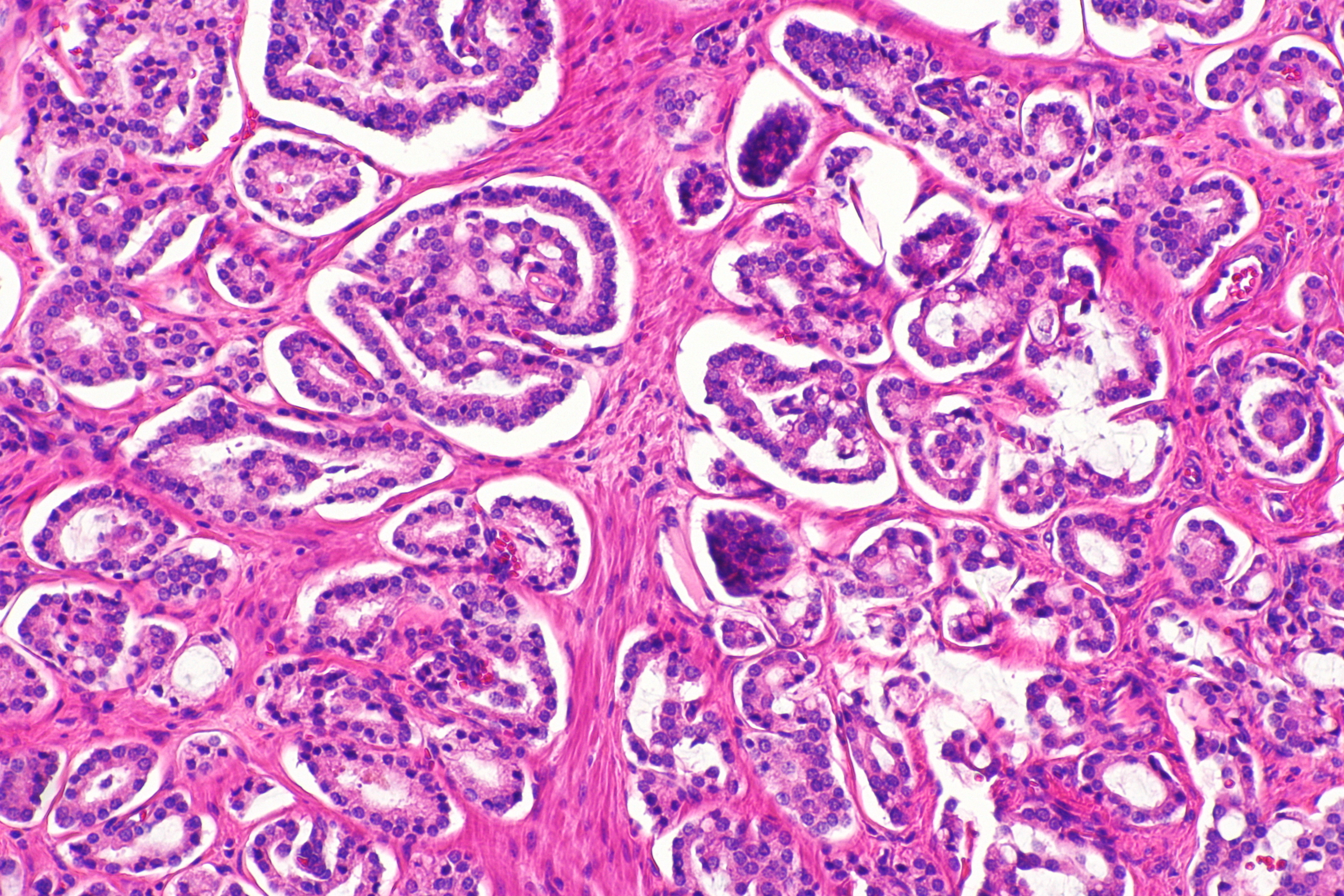 Micrograph showing Gleason pattern 4 in prostatic carcinoma. H&E stain Related images PCGP - intermed. mag. PCGP - high mag.